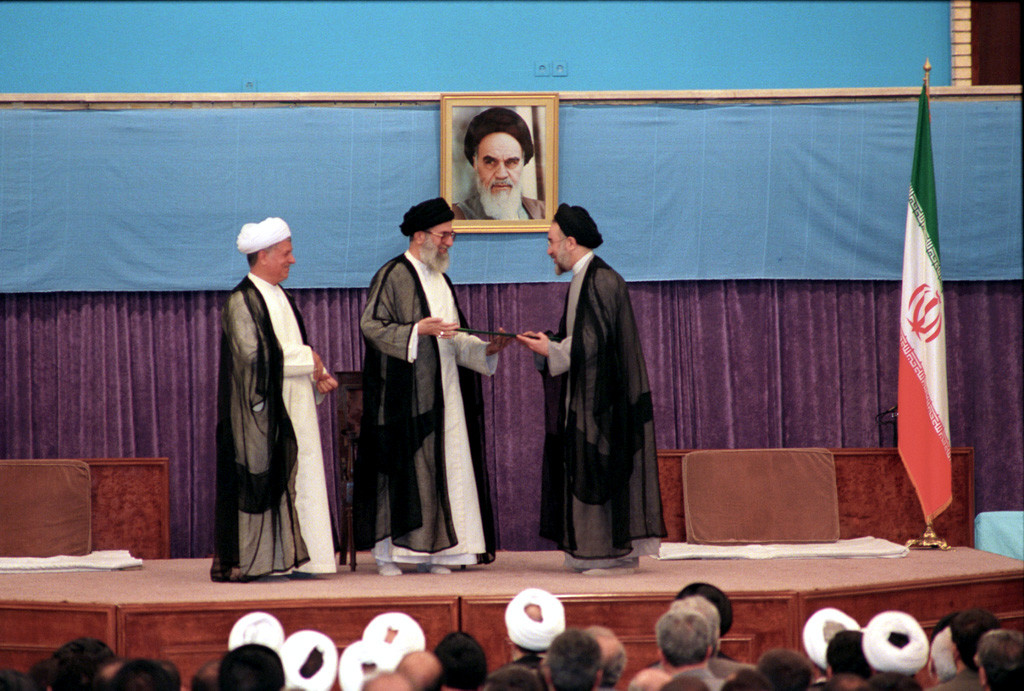 Inauguration of first term presidency of Mohammad Khatami - August 3, 1997